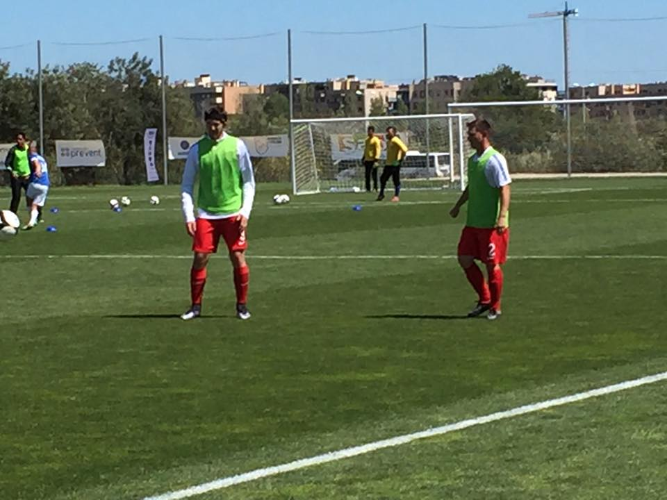 Photo taken at IFCPF Pre Paralympic Tournament Salou 2016 using personal iPhone.